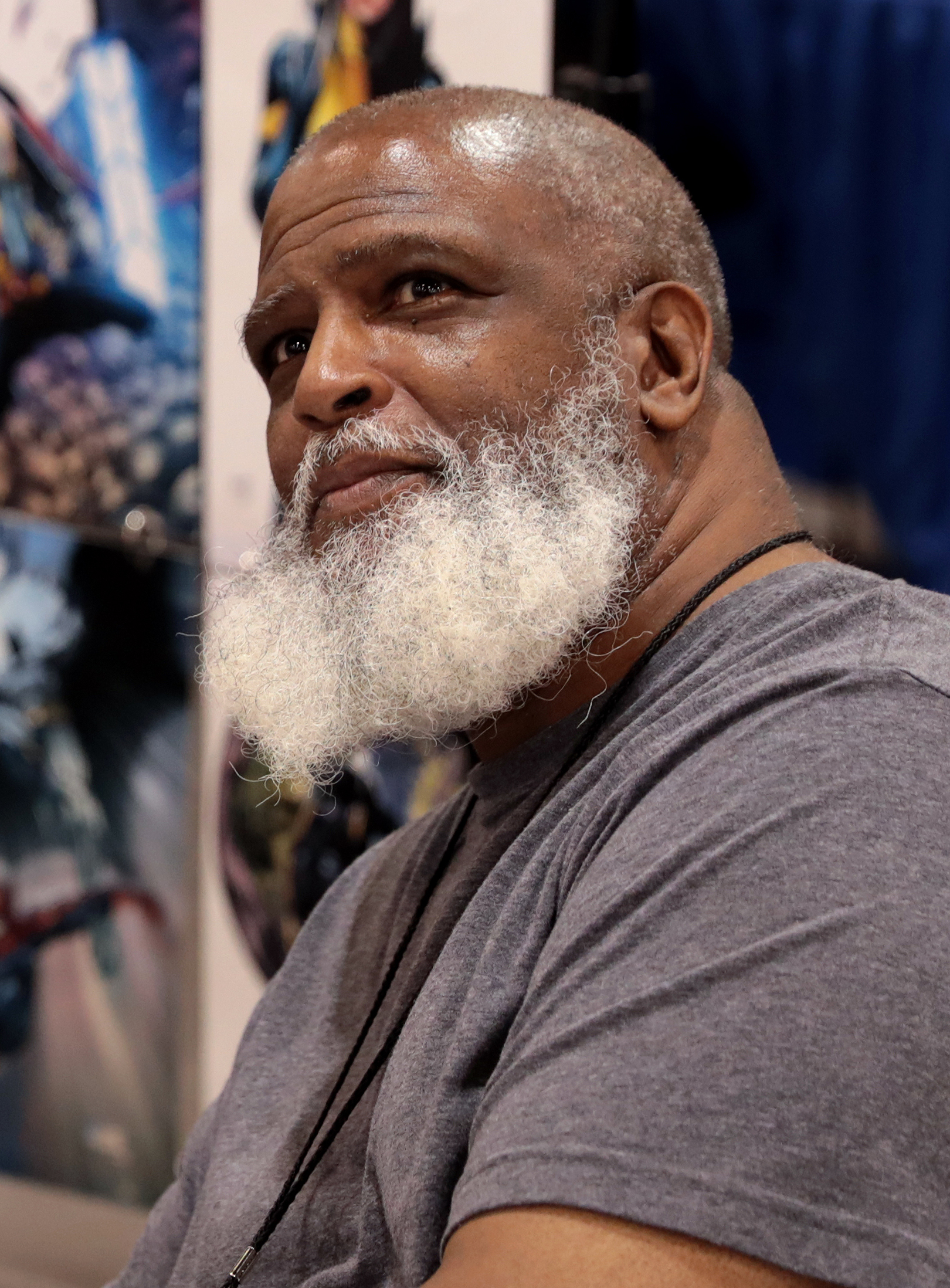 Larry Stroman speaking at the 2019 Phoenix Fan Fusion in Phoenix, Arizona.